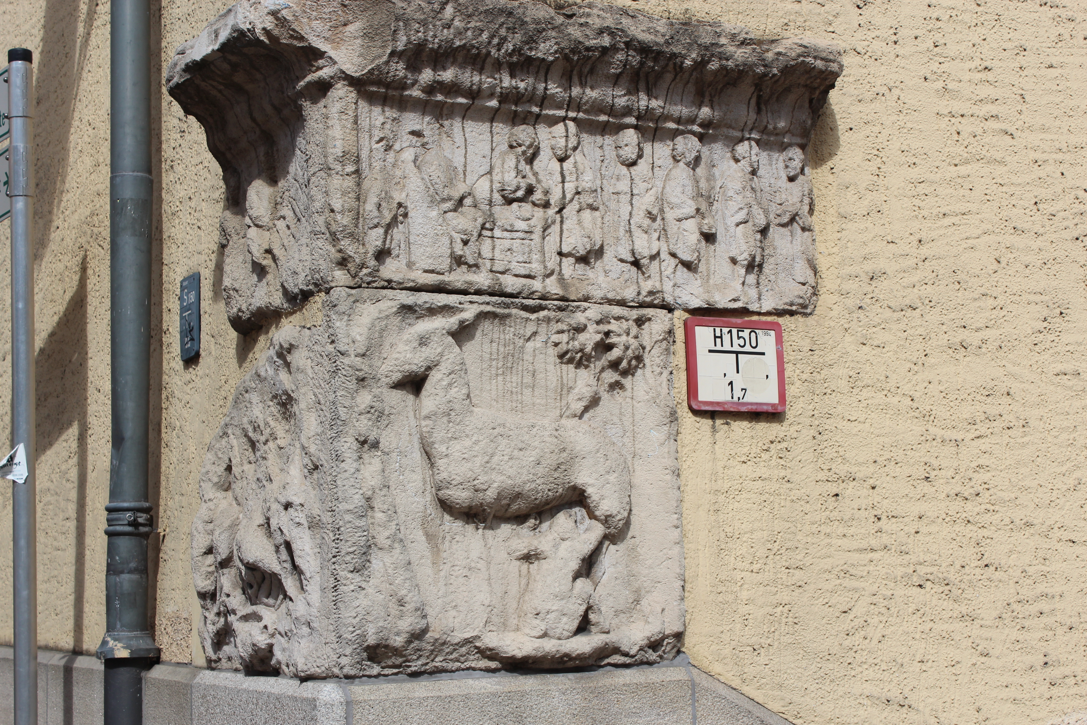 Roman relief in facade of house in 12, rue Saint-Esprit, Luxembourg City.